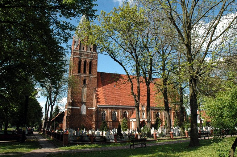 Lichnowy (Pomeranian Voivodeship, Poland) st. Ursula's church (XIV century)